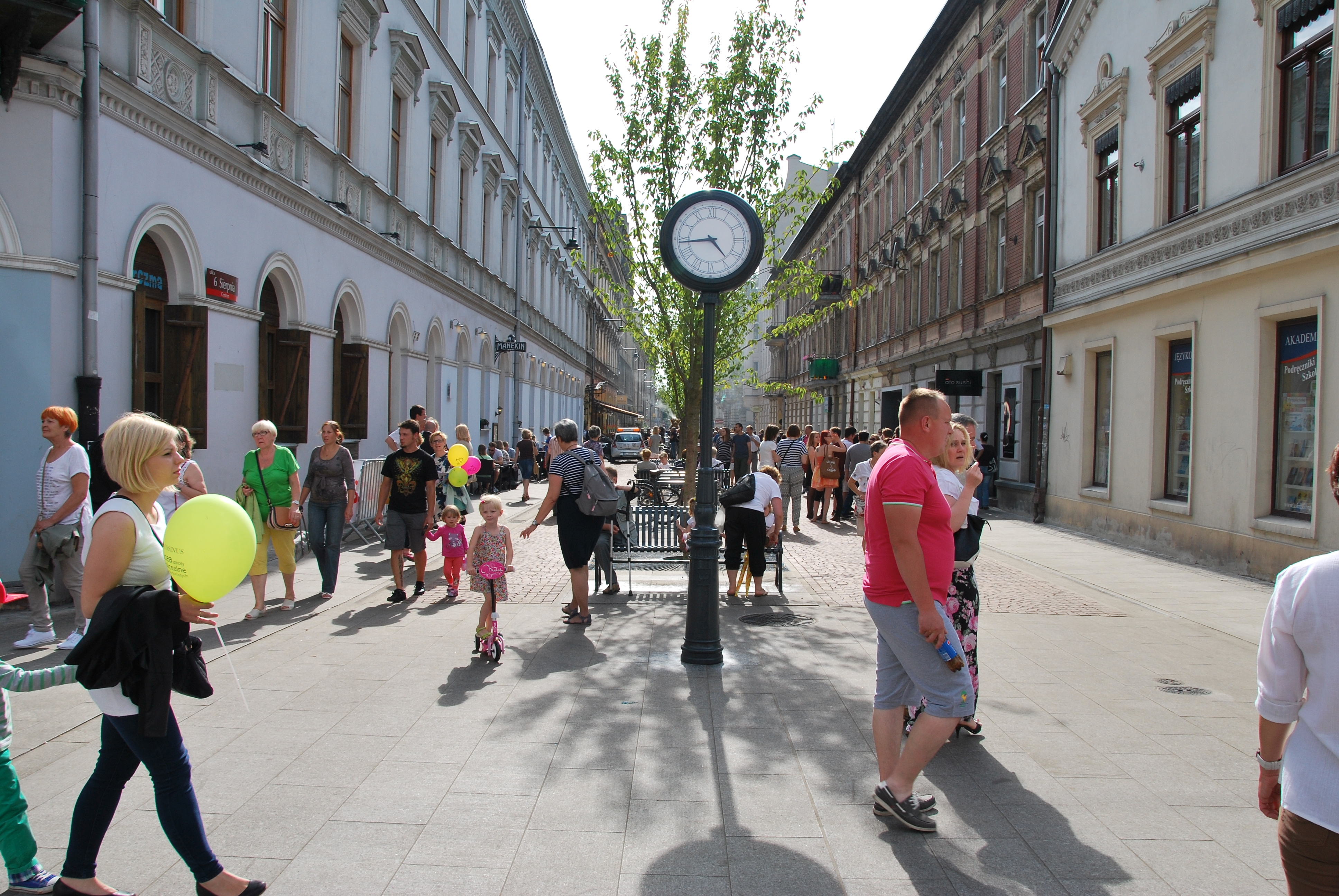 First woonerf in Łódź, 6 Sierpnia Street